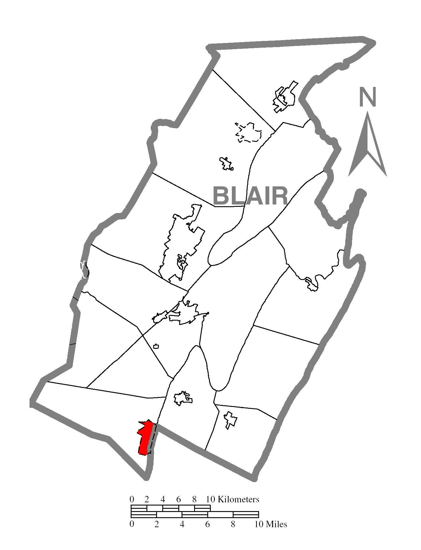 A map of Blair County showing Claysburg, Pennsylvania (alternate) highlighted on the map.